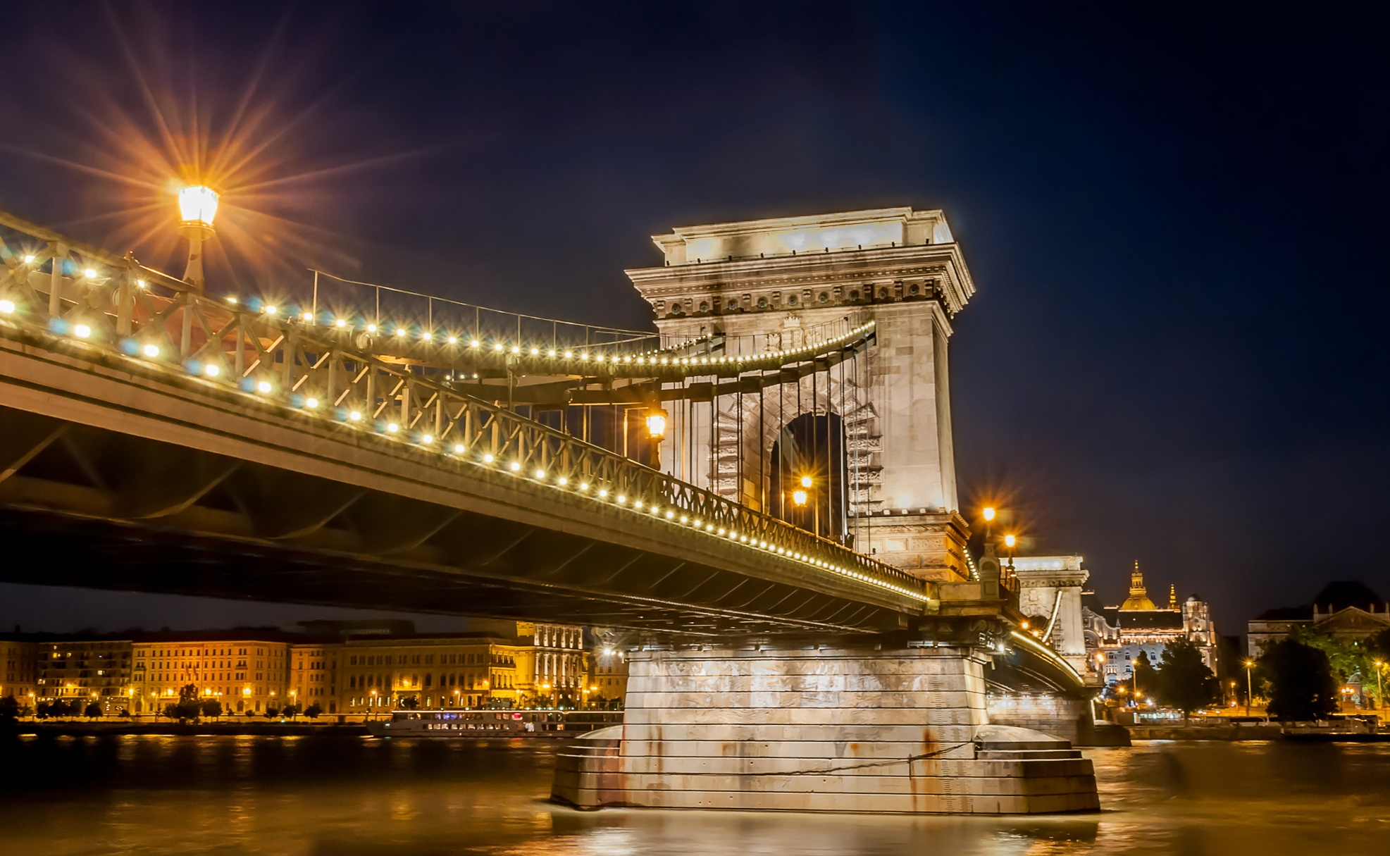 Budapest Hungary